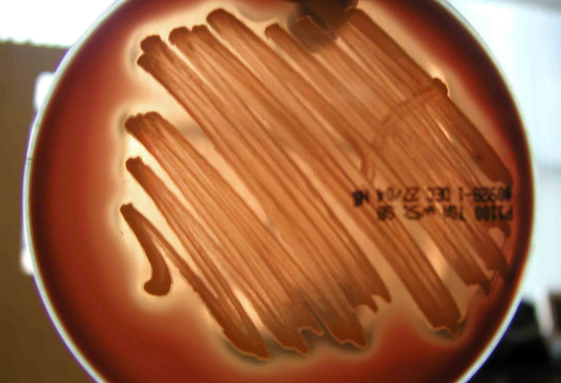 beta hemolisis by Staphylococcus aureus